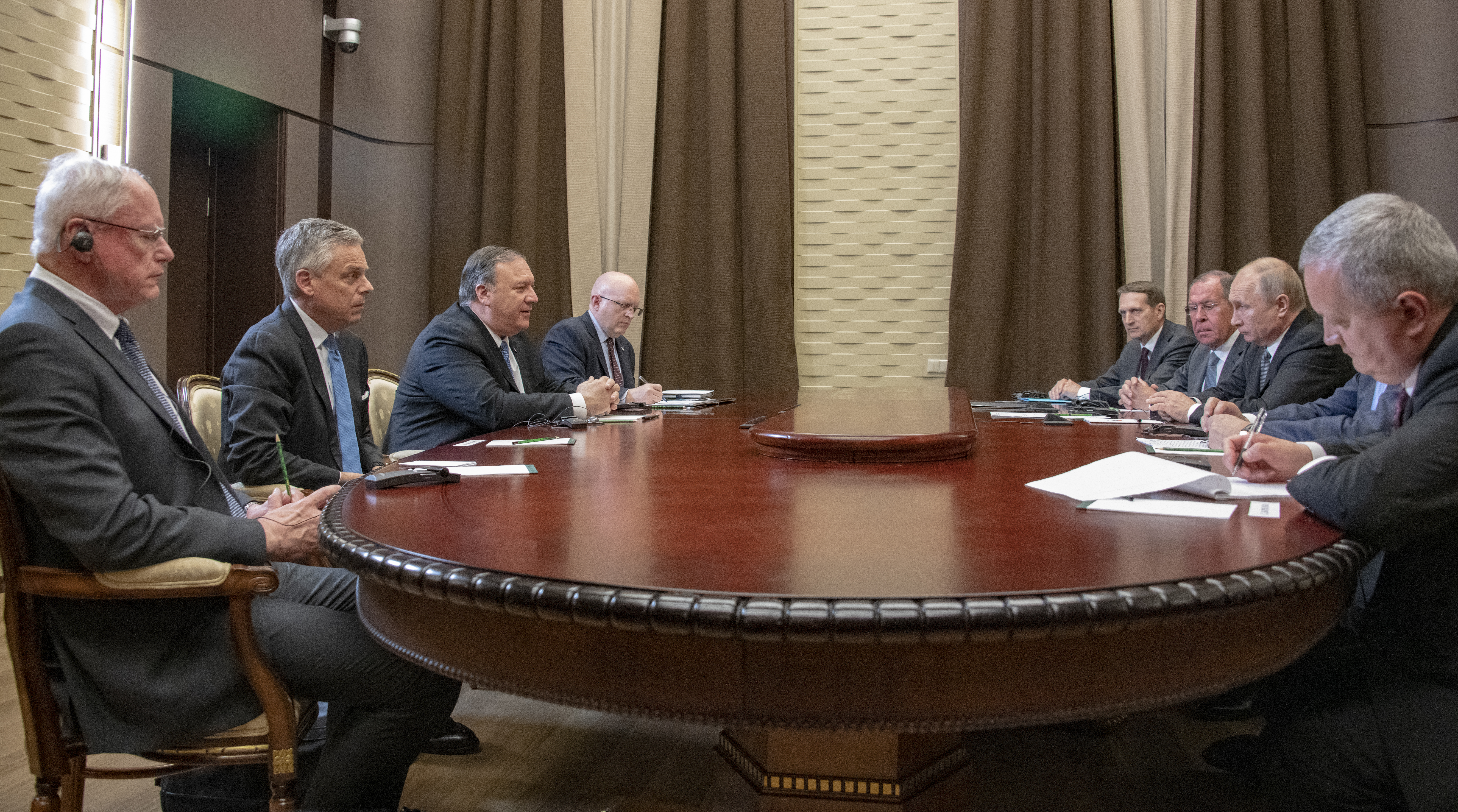 U.S. Secretary of State Michael R. Pompeo meets with Russian President Vladimir Putin in Sochi, Russia on May 14, 2019. [State Department photo by Ron Przysucha/ Public Domain]